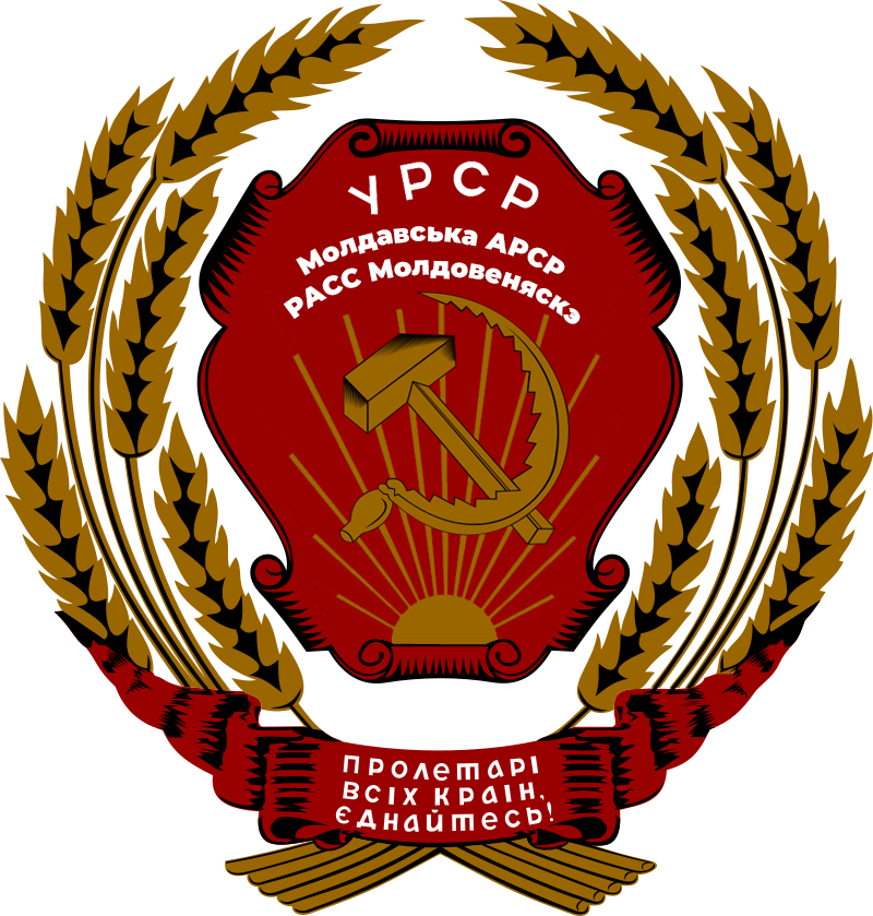 RASSM coat of arms (1938)